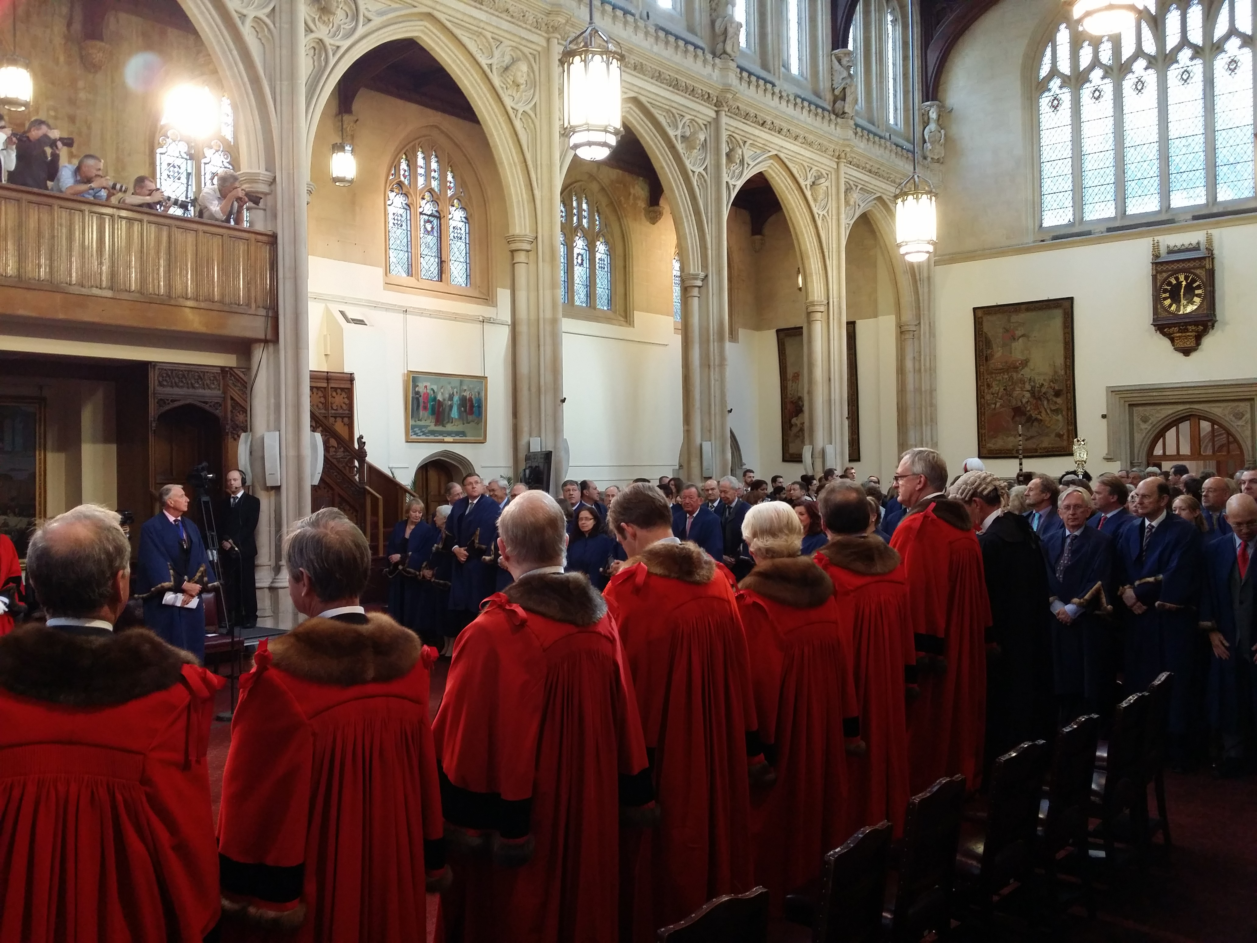 Tim Berners-Lee receiving an honorary Freedom of the City of London.